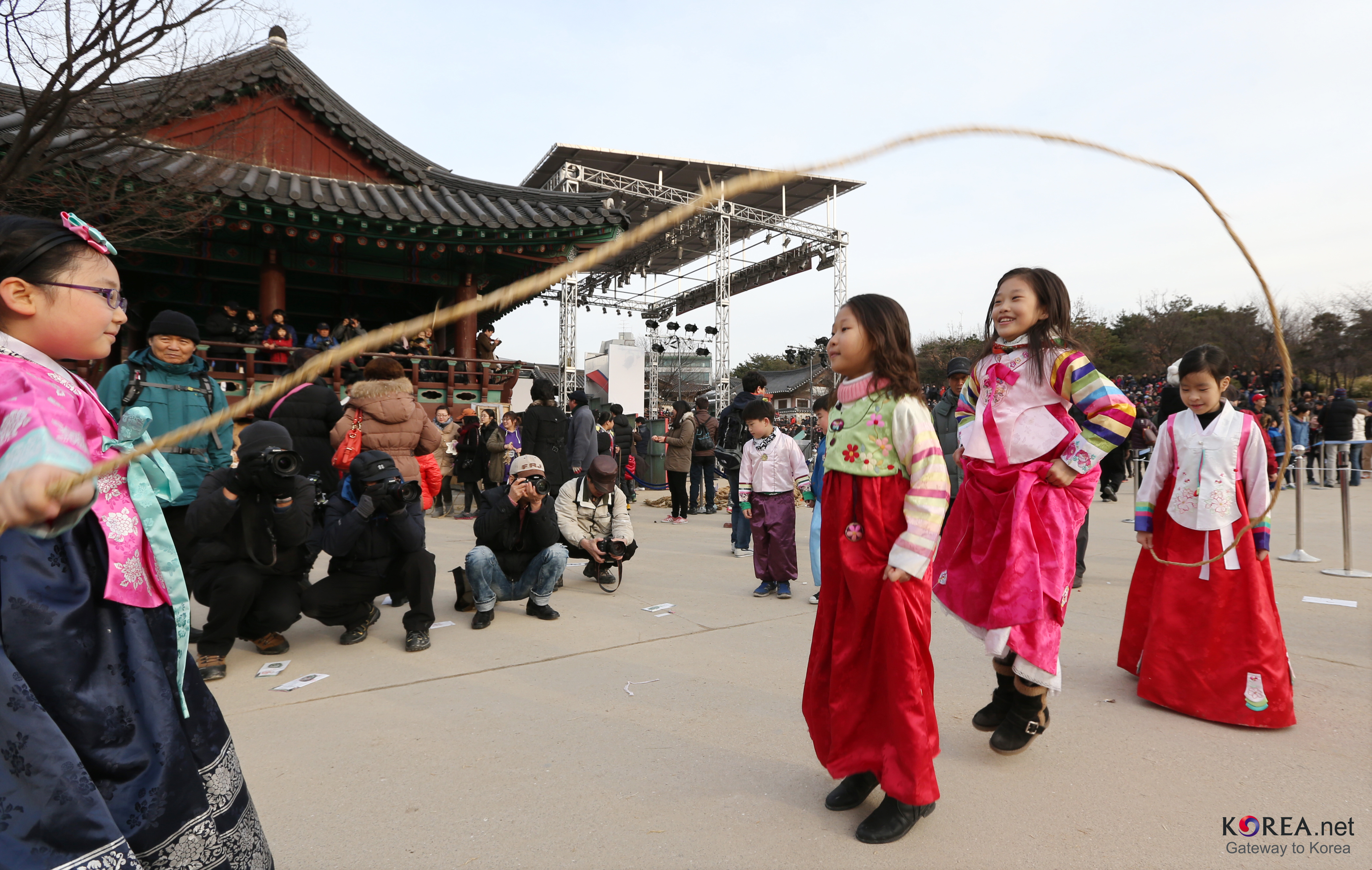 Jeongwol Daeboreum Sketch Jeongwol Daeboreum, the first full moon of the lunar calendar, is one of the biggest traditional holidays celebrated across Korea. Namsangol Hanok Village, Seoul 2013.02.24. Ministry of Culture, Sports and Tourism Korean Culture and Information Service Jeon Han 정월대보름 스케치 남산골한옥마을 문화체육관광부 해외문화홍보원 코리아넷 전한